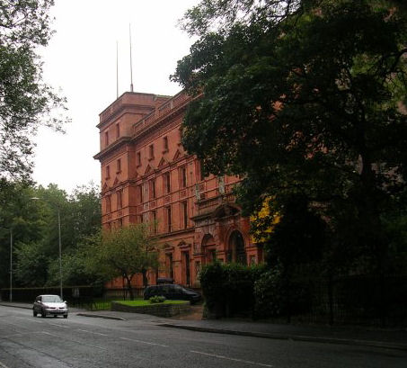 Image was cropped from an original obtained from where it was made available under a Creative Commons license by the photographer, Keith Williamson.